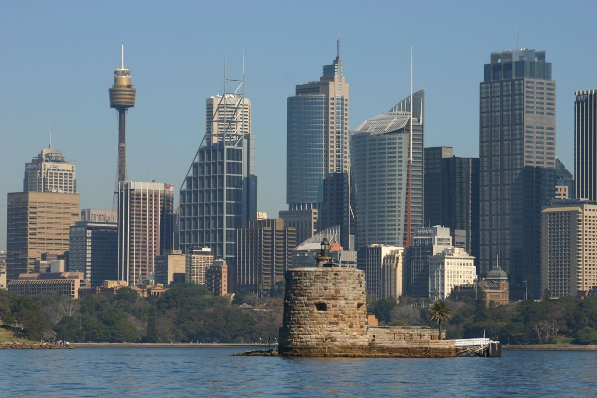 Fort Denison in Sydney Harbour with the Sydney skyline. Photo by Takver ( on 18 August 2005 and released under the GNU FDL.